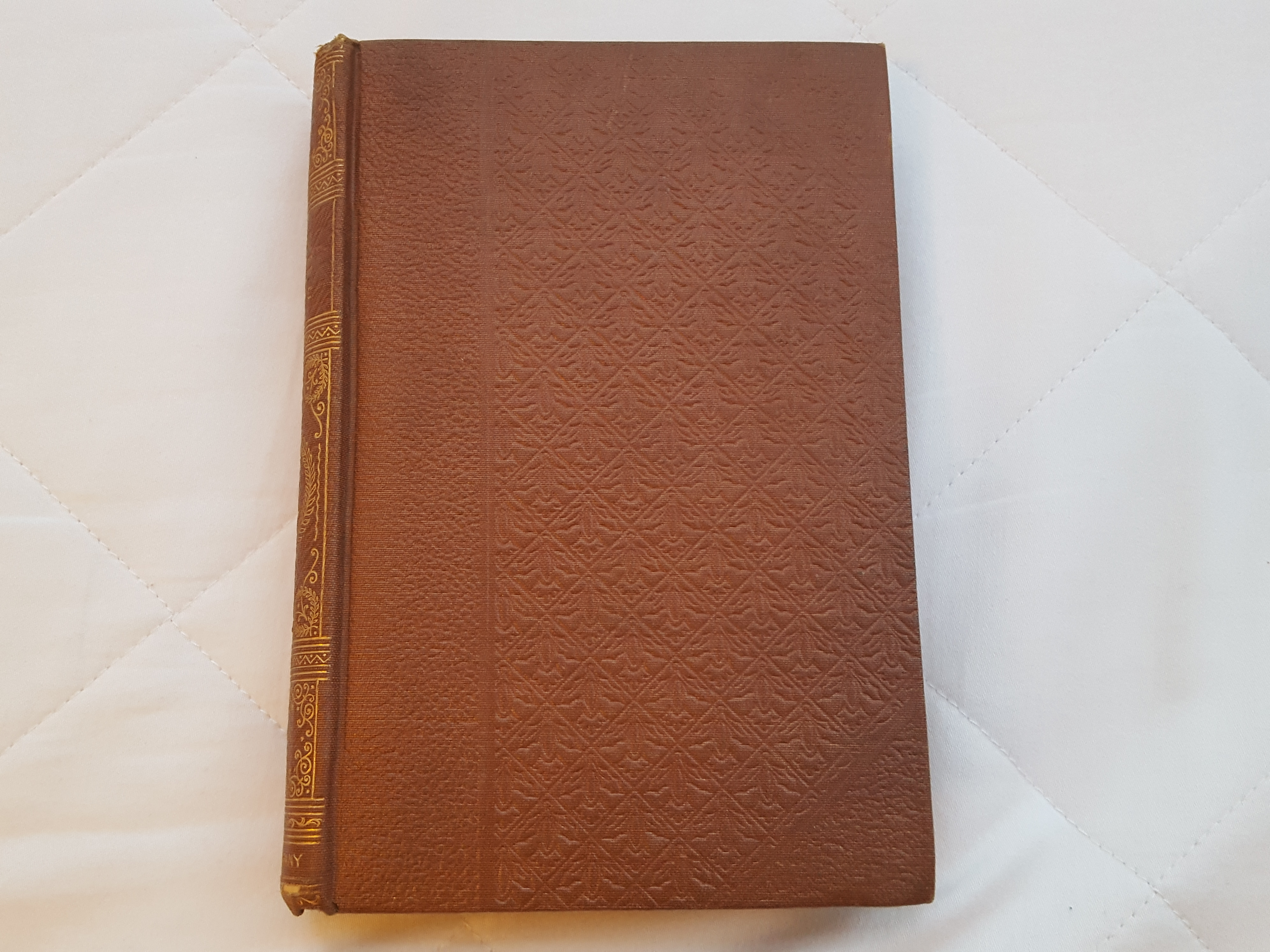 Front Cover of the First Edition Printed in 1852